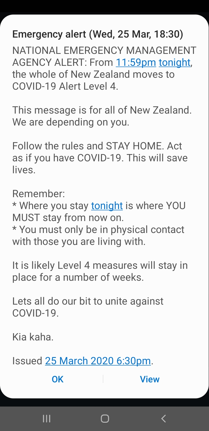 An Emergency Mobile Alert message in New Zealand on 25 March 2020, regarding the imminent move to COVID-19 Alert Level 4 (nationwide lockdown) at 11:59pm that night